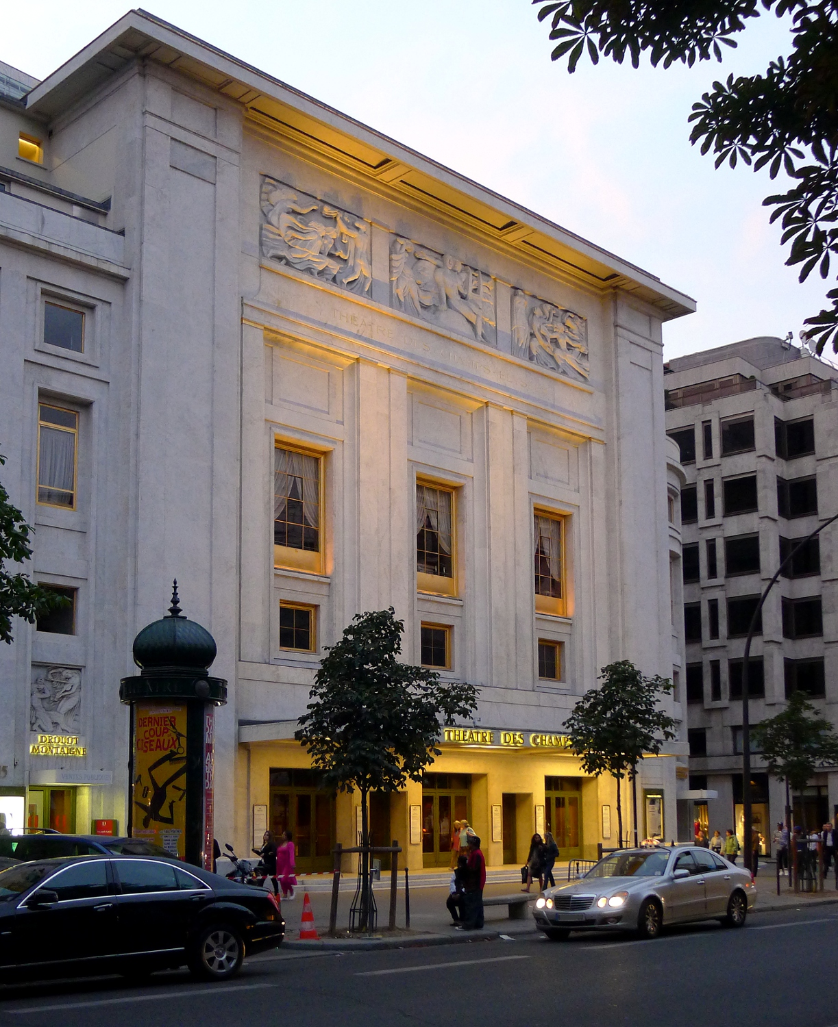 Montaigne avenue (Champs-Elysées theater) - Paris